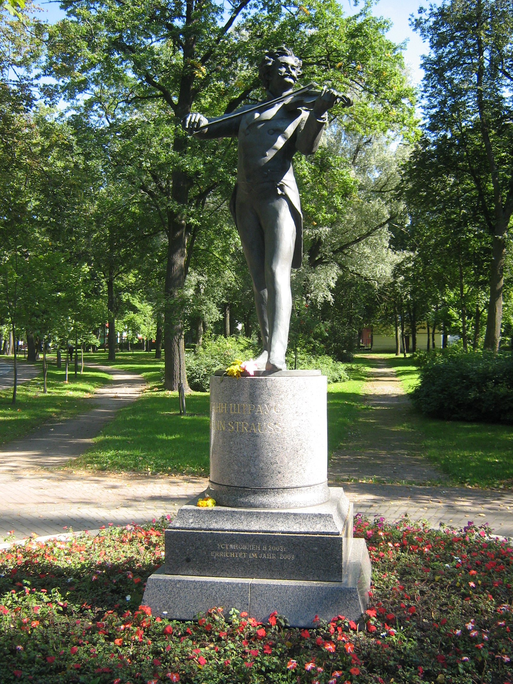 Pavlovsk (Russia)